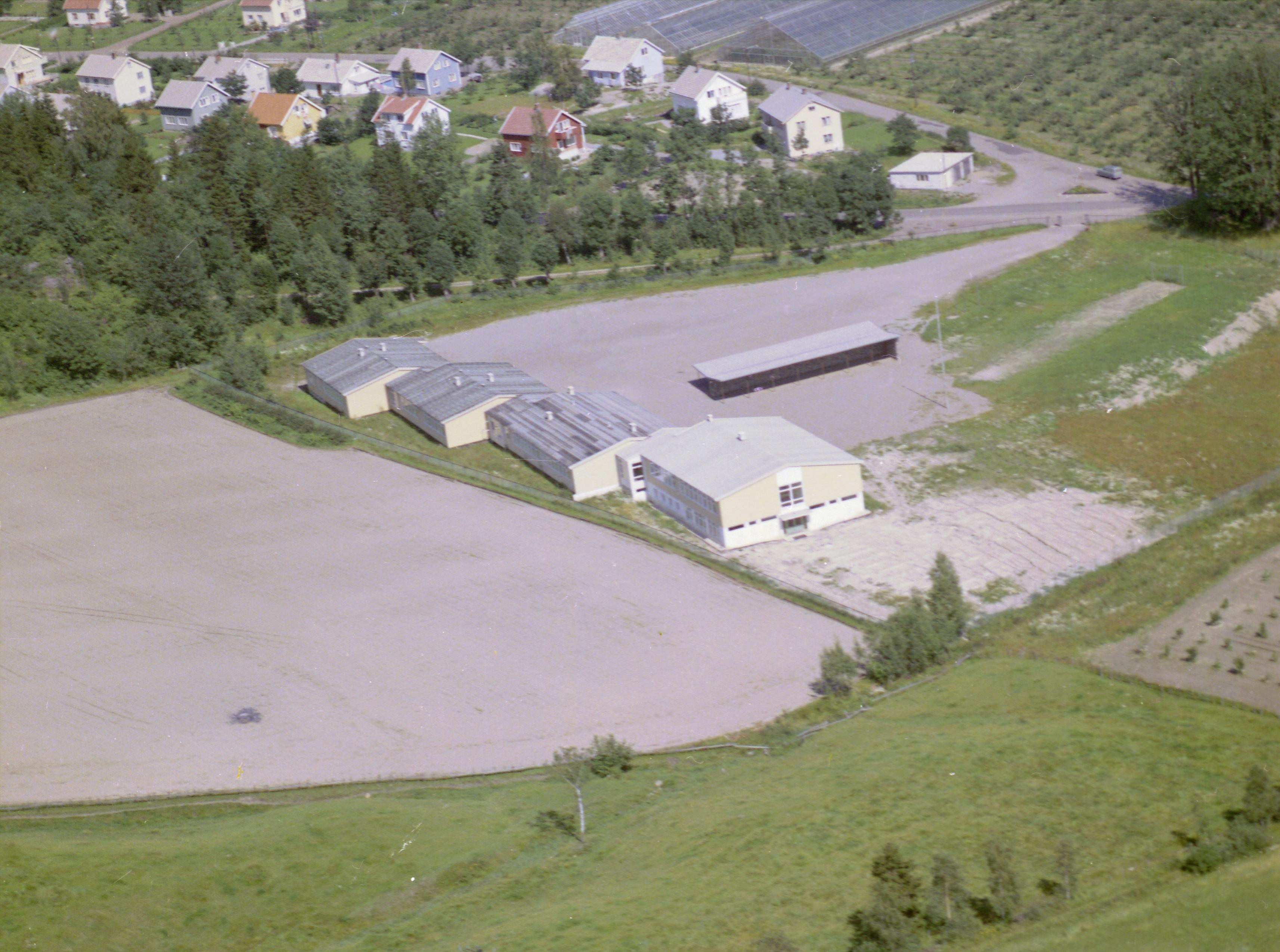 WF.HM.11906